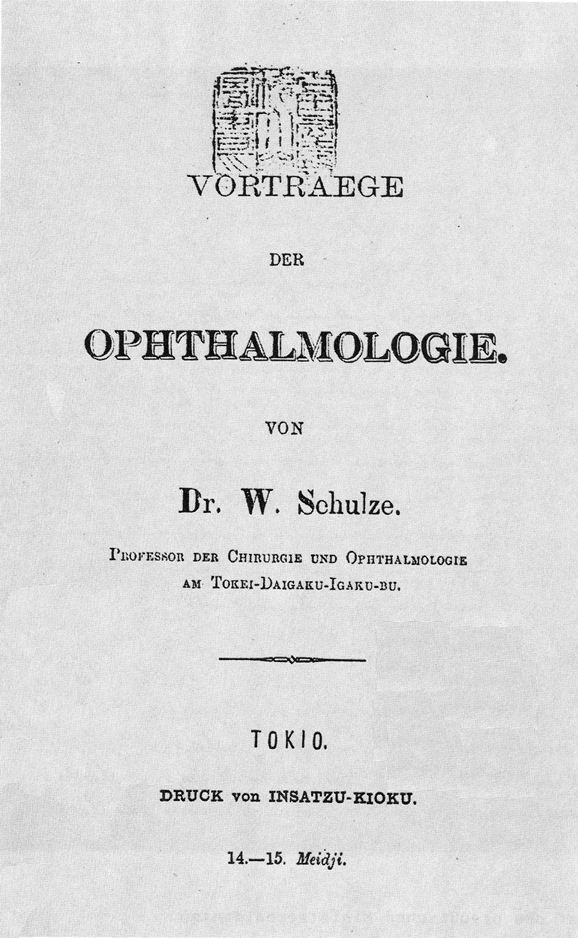 Title page of "Lectures on ophtalmology" given by Dr. Emil August Wilhelm Schultze, Tokyo 1881/82